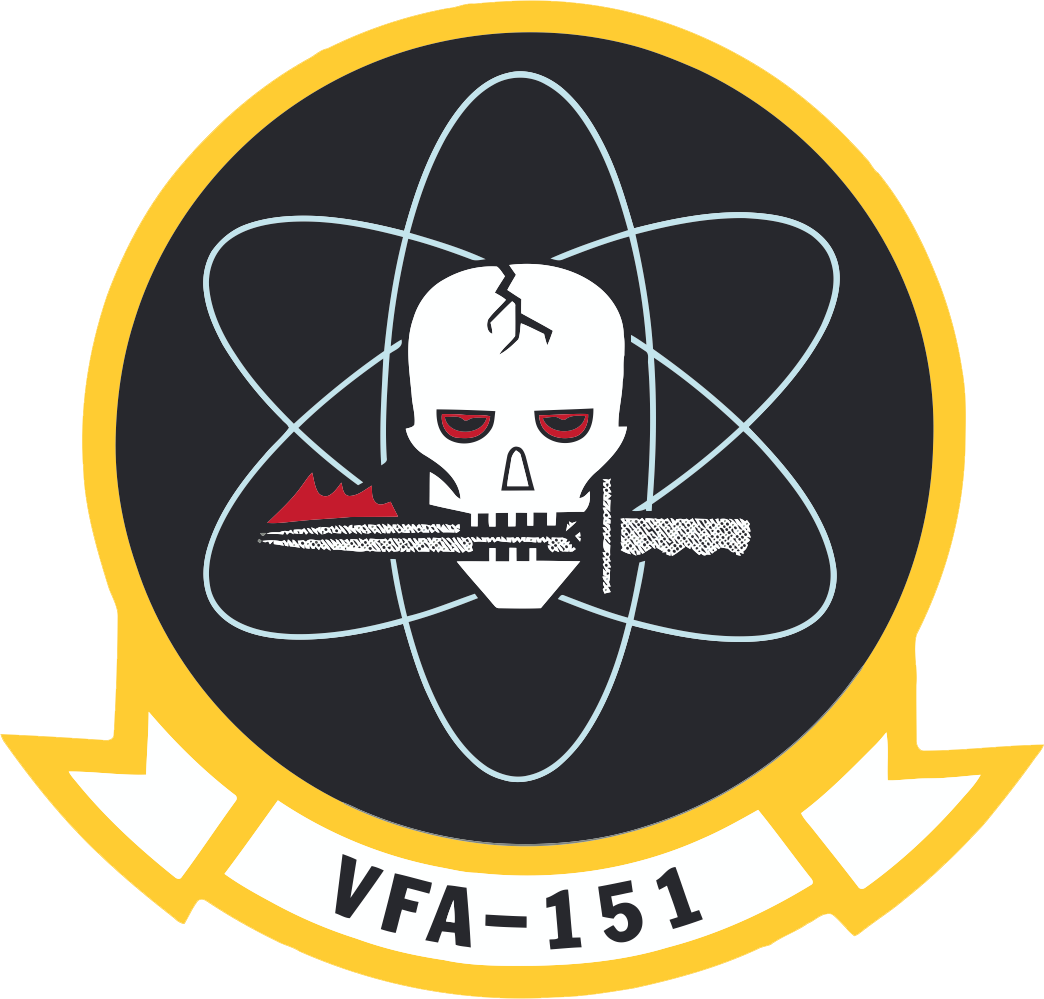 Insignia of the U.S. Navy Strike Fighter Squadron 151 (VFA-151) "Vigilantes". The insignia was approved on 20 November 1984. The squadron continued to use its old insignia approved for VF-151 and changed the designation in the scroll to reflect the redesignation to VFA-151 on 1 June 1986.